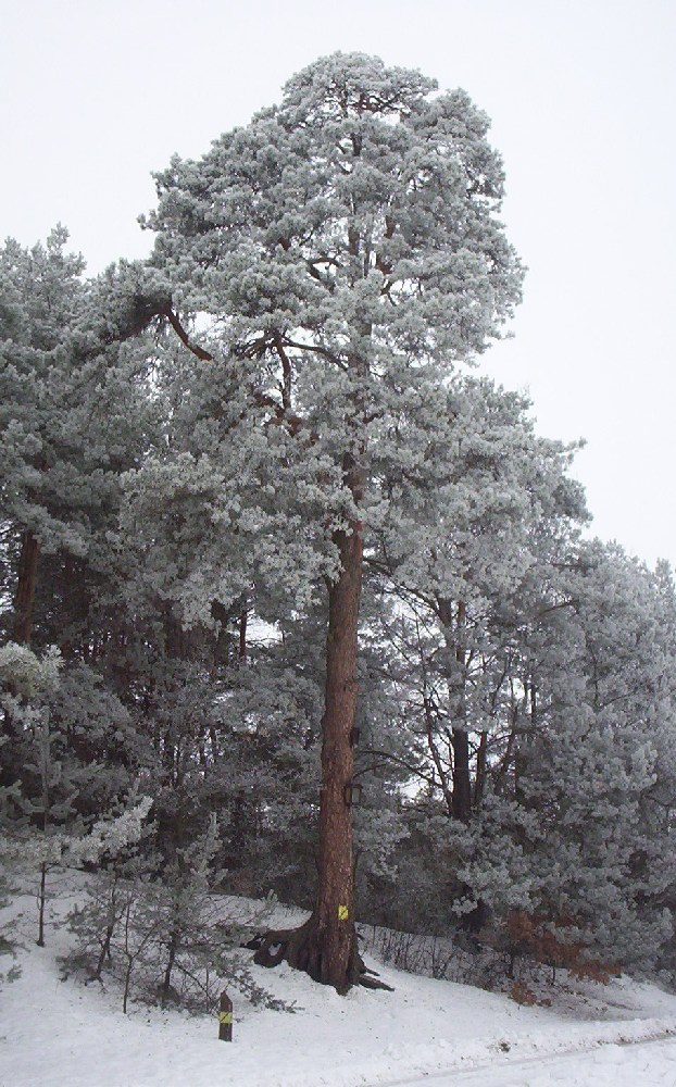 160 years old Pinus sylvestris, Międzyborów, Poland.